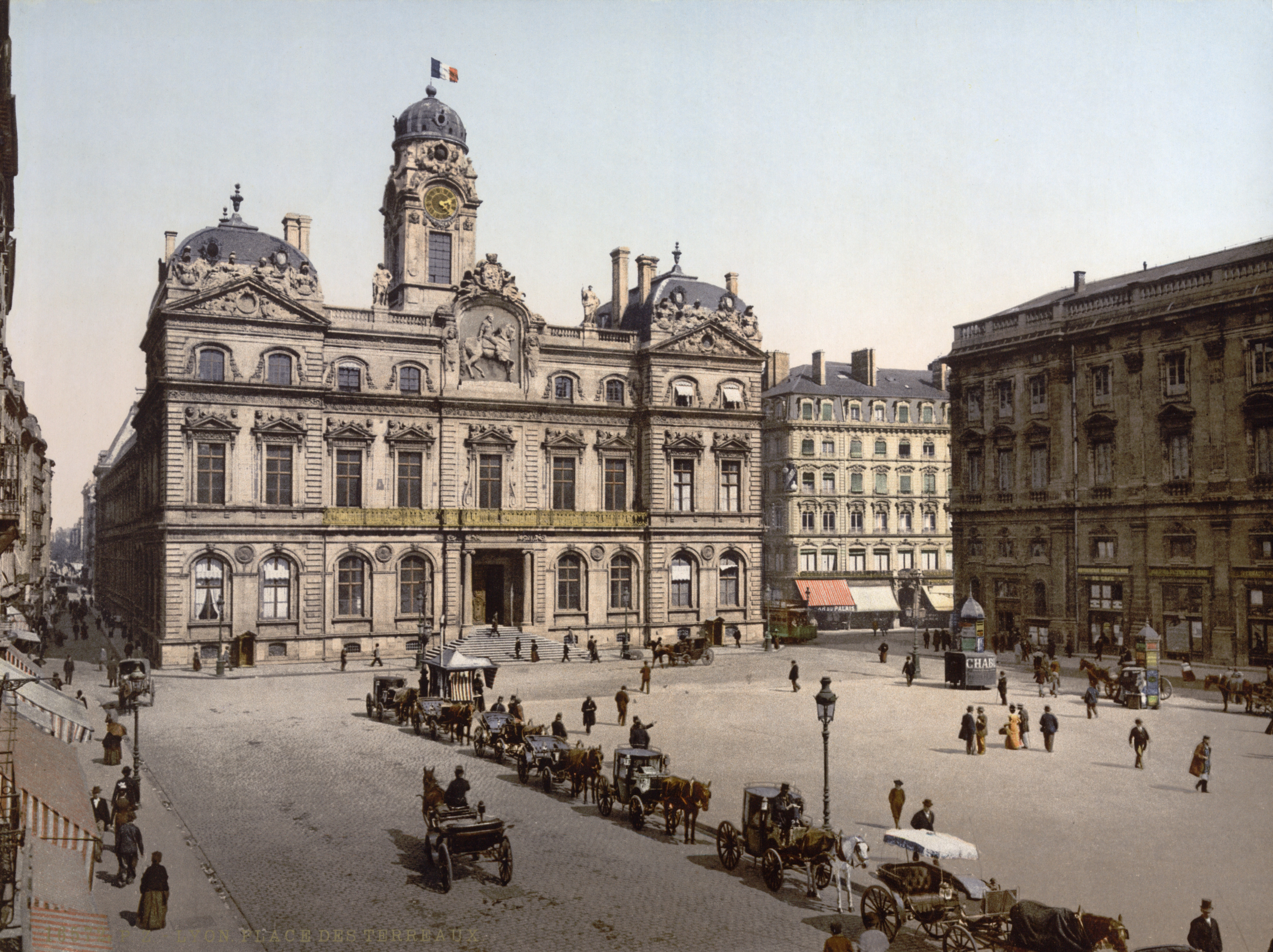 Place des Terreaux, Lyons, France